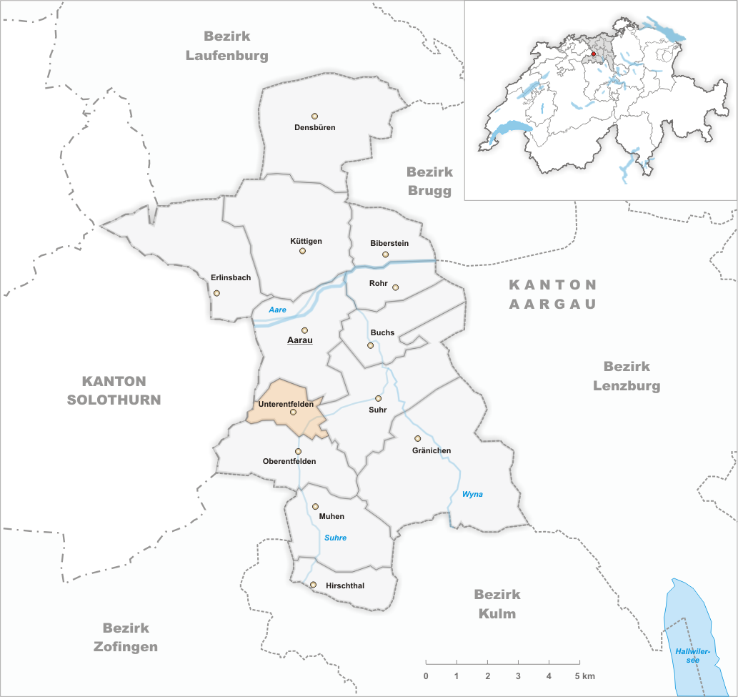 Municipality Unterentfelden